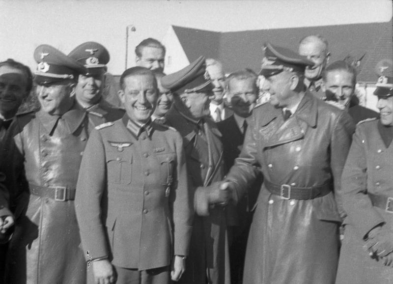 Information added by Wikimedia users.